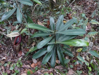 pitcherless rosette plant of Nepenthes mapuluensis ; the lower pitcher belongs to a nearby plant. East Kalimantan, 650 m a.s.l.